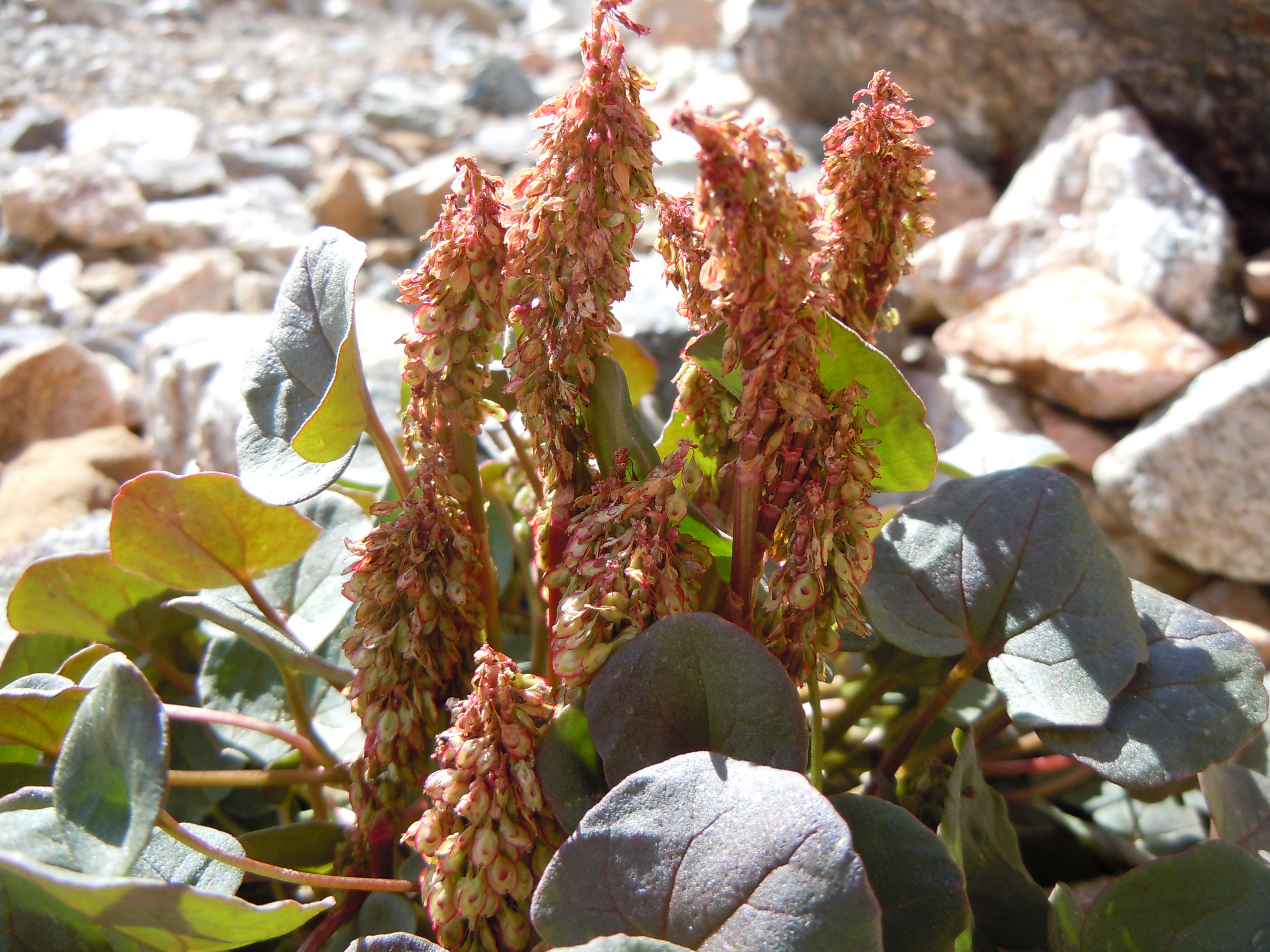 Although Oxyria is distinguished by techical details of the flower (e.g., 4 perianth segments), the reniform (kidney shaped) leaves and a habitat of rocky slopes in alpine to subalpine settings are most characteristic. The leaves taste like rhubarb.